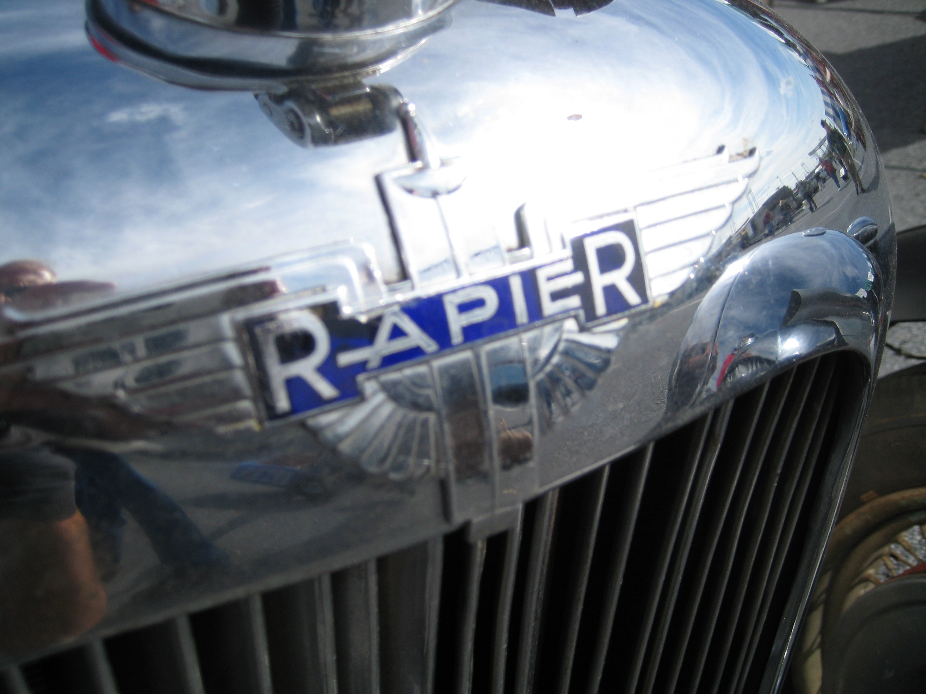 Seen in the flea market area at 2009 AACA Eastern Region Fall Meet, Hershey, Pennsylvania, in October. I love the Art Deco style of this badge.